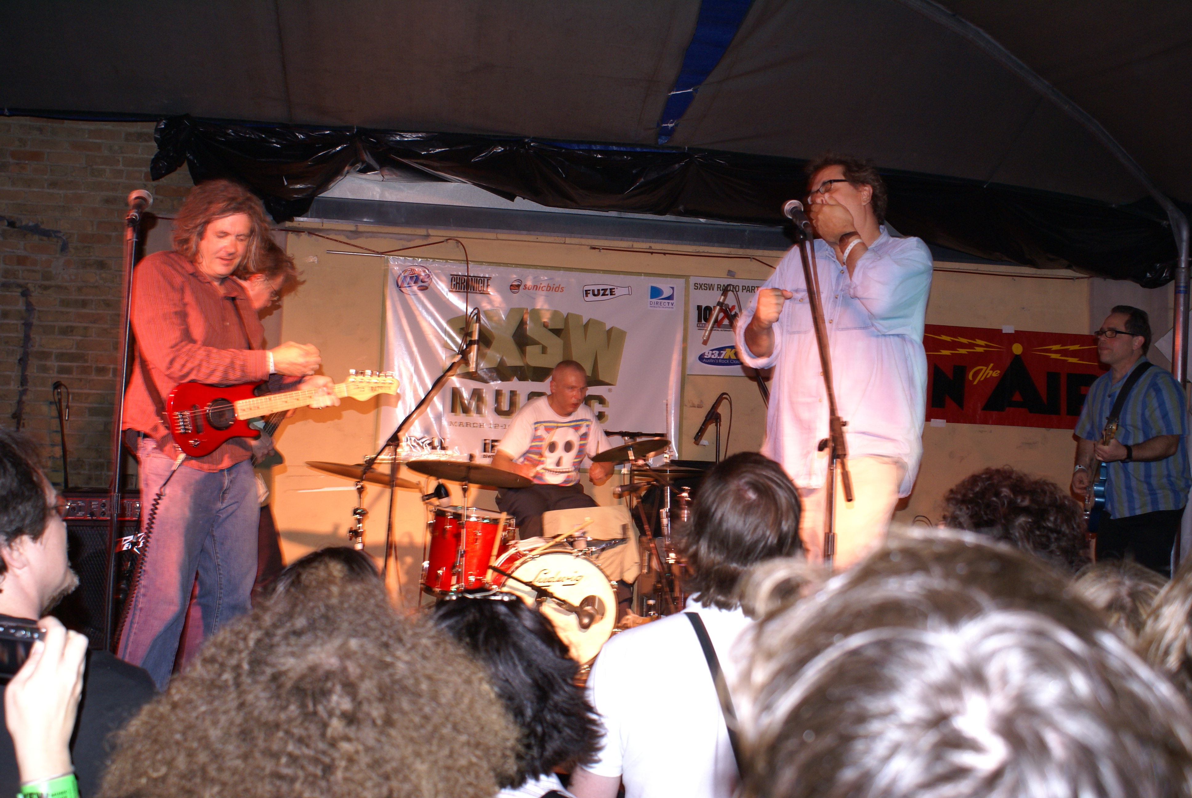 Half Japanese, SXSW, 3/14/08